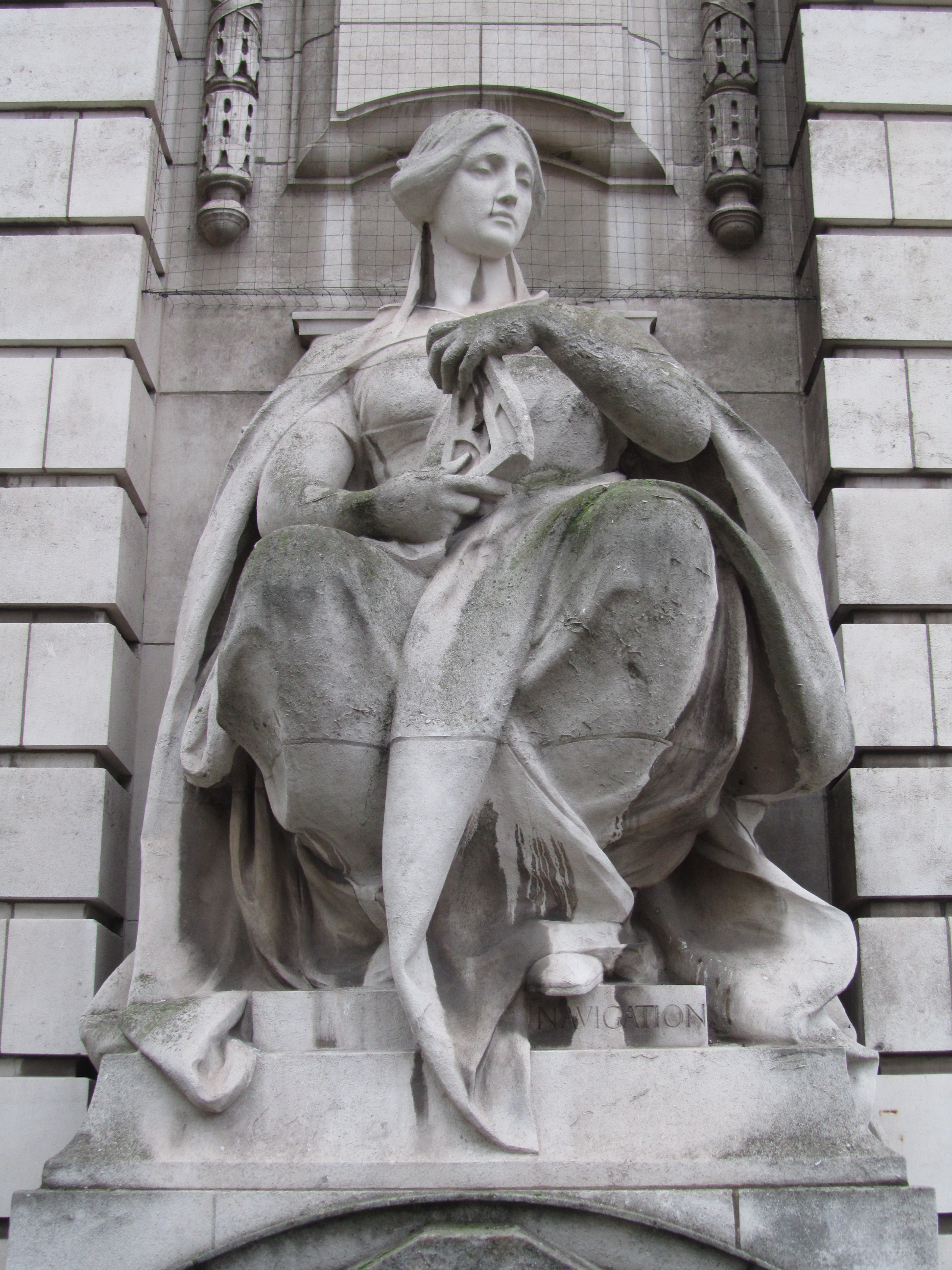 London - November, 2012